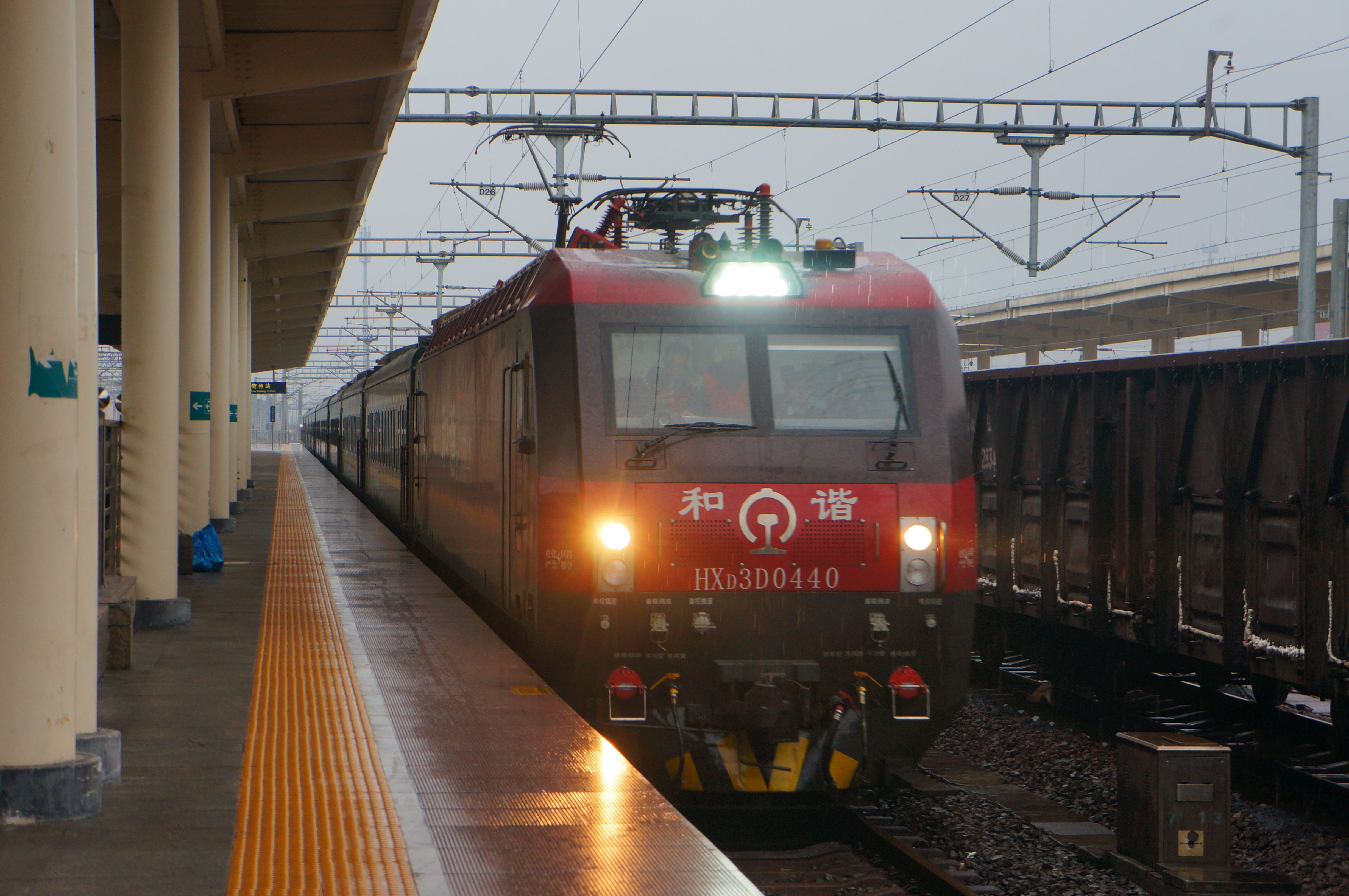 While K1209 is departing from track 3 (Platform 4), this train passes the station through the track 5 (platform 5) to get to the Quzhou-Jiujiang Railway